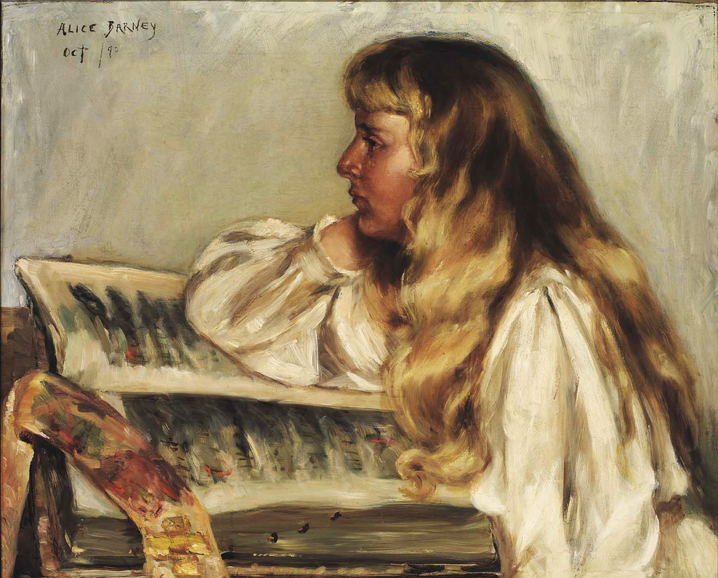 Depicts the writer and salonist Natalie Clifford Barney at approximately age 13.